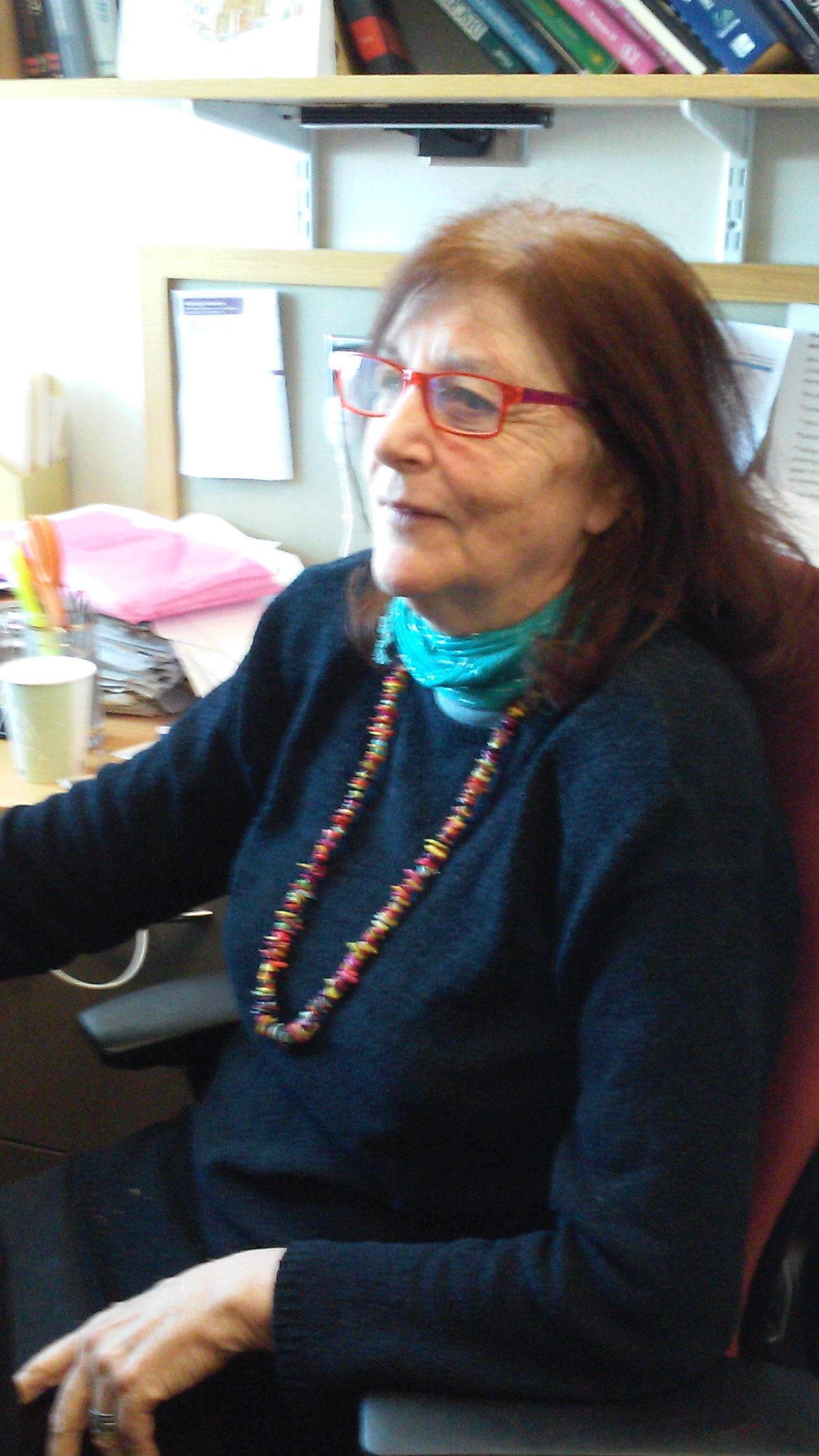 TamaraAwerbuch-03-19-2015f.jpg is a photo of Dr. Tamara Awerbuch-Friedlander of Harvard T. H. Chan School of Public Health